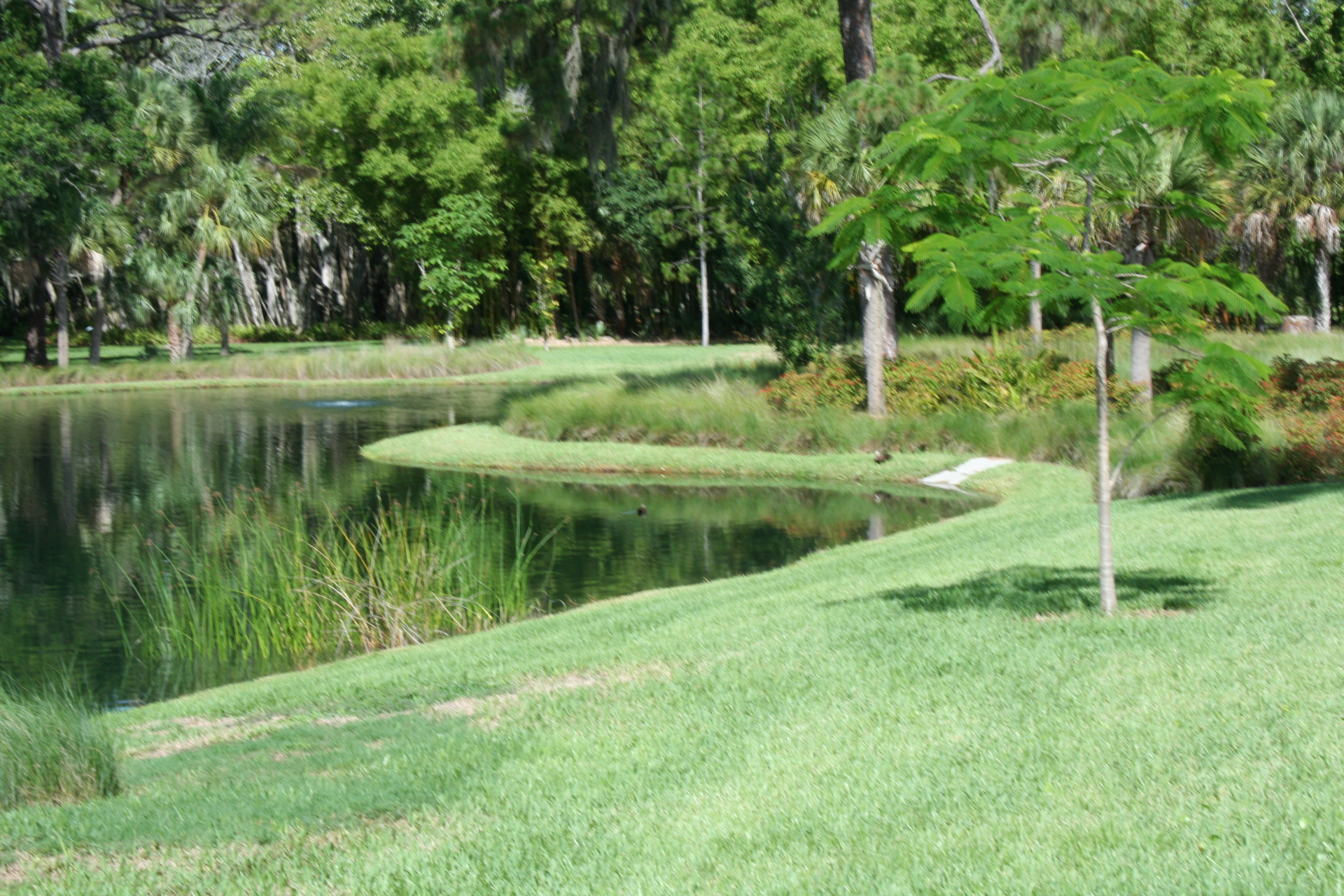 A lake near The Cà d’Zan, Sarasota, Florida, United States.